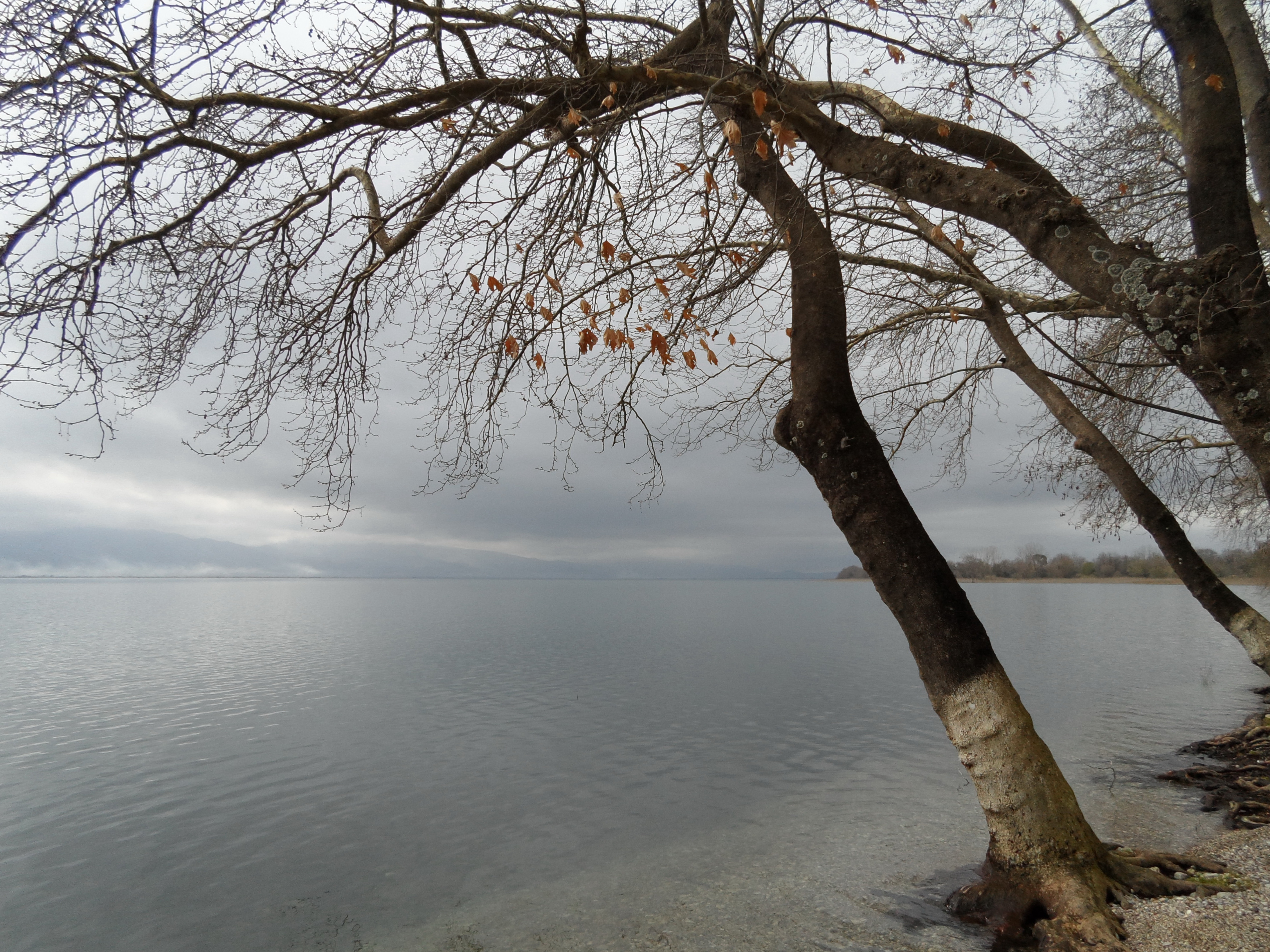 This is a photography of Natura 2000 protected area with ID GR2310009